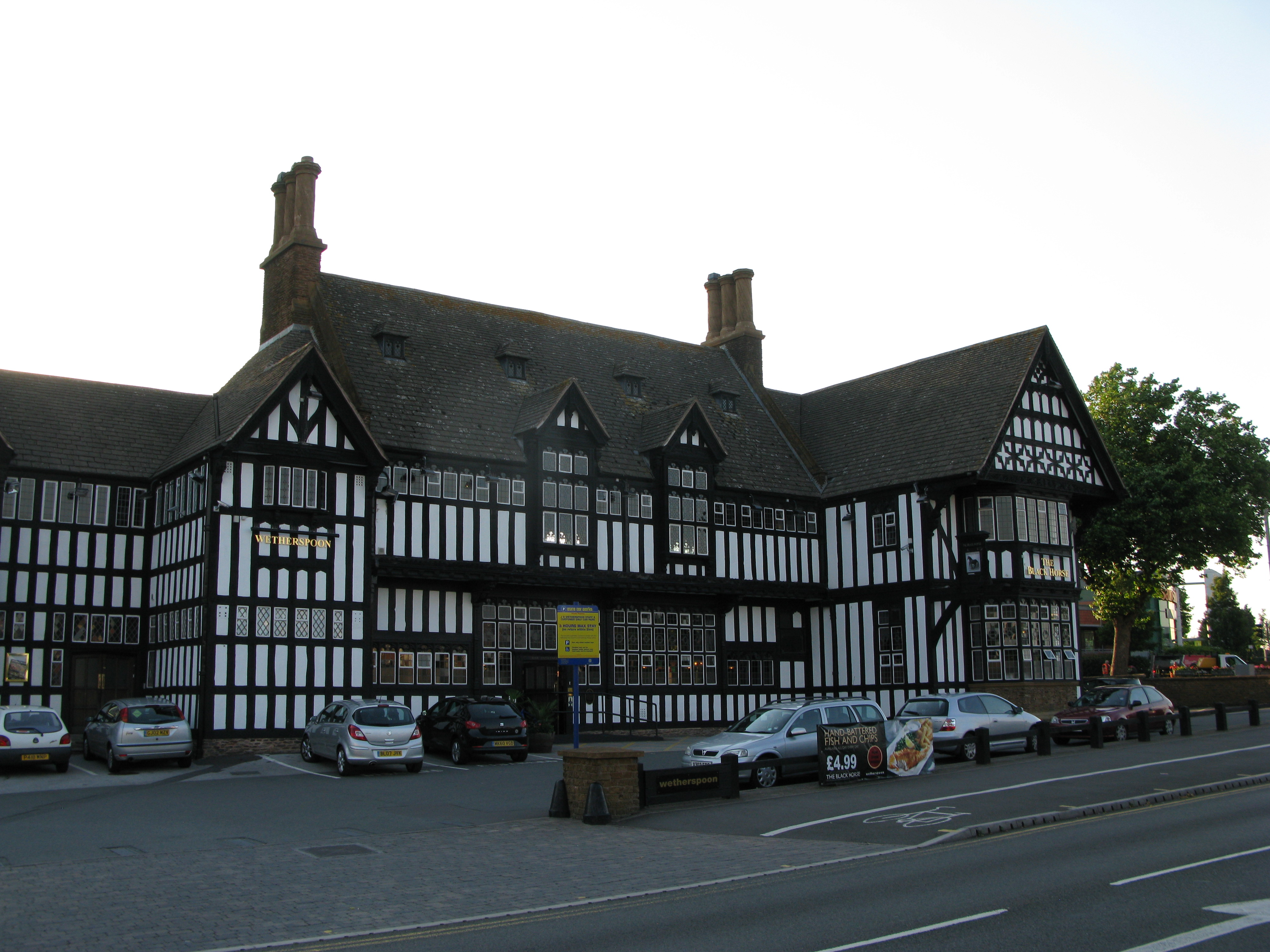 Grade II*